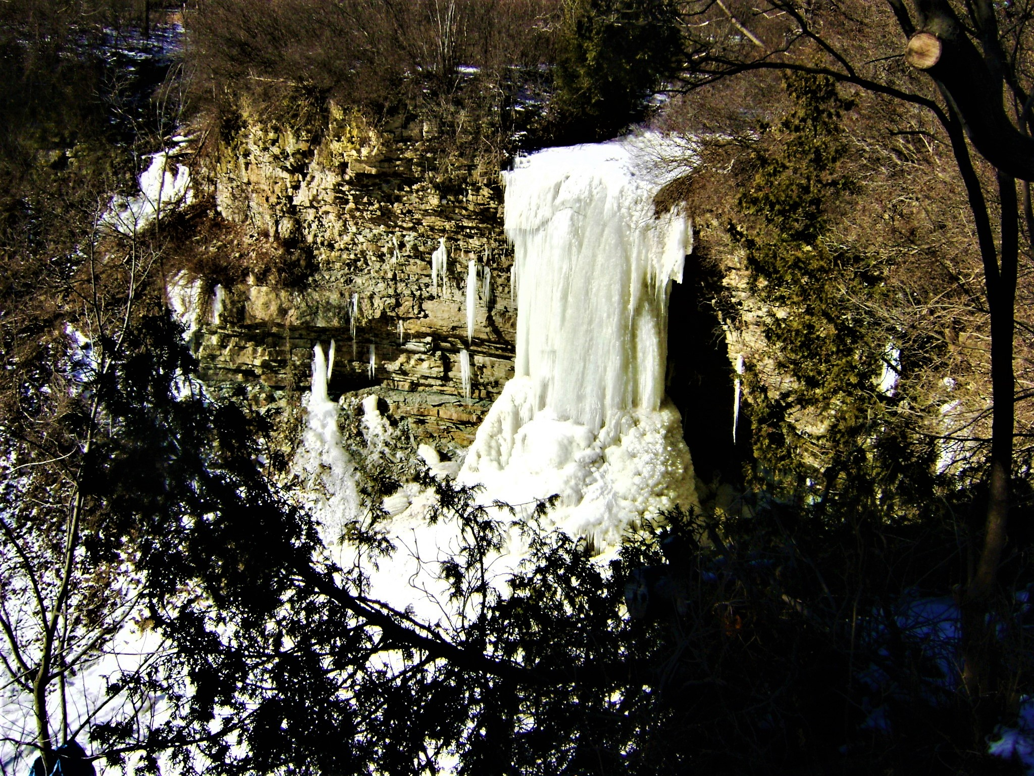 Borer's Falls is a 15-metre-high (49 ft) ribbon-style waterfall found in the Borer's Falls Conservation Area in Dundas, Hamilton, Ontario, Canada This photo was taken in a protected area in Canada, Wikidata item Borer's Falls Conservation Area (Q97153930)